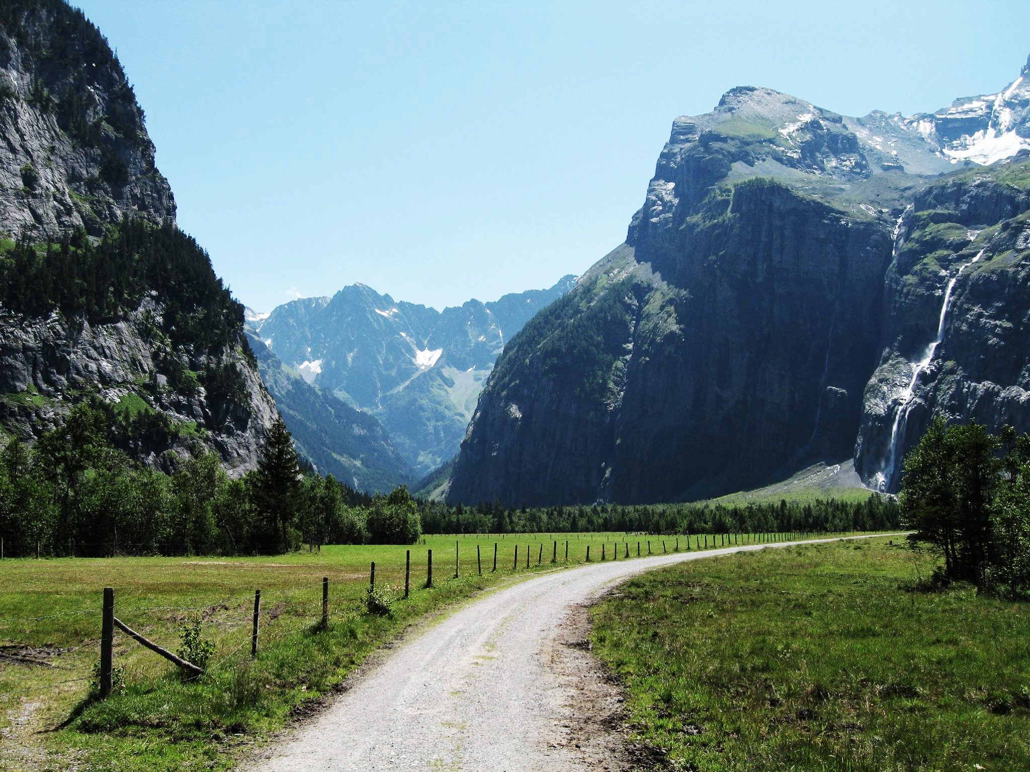 Gasteretal, Bernese oberland